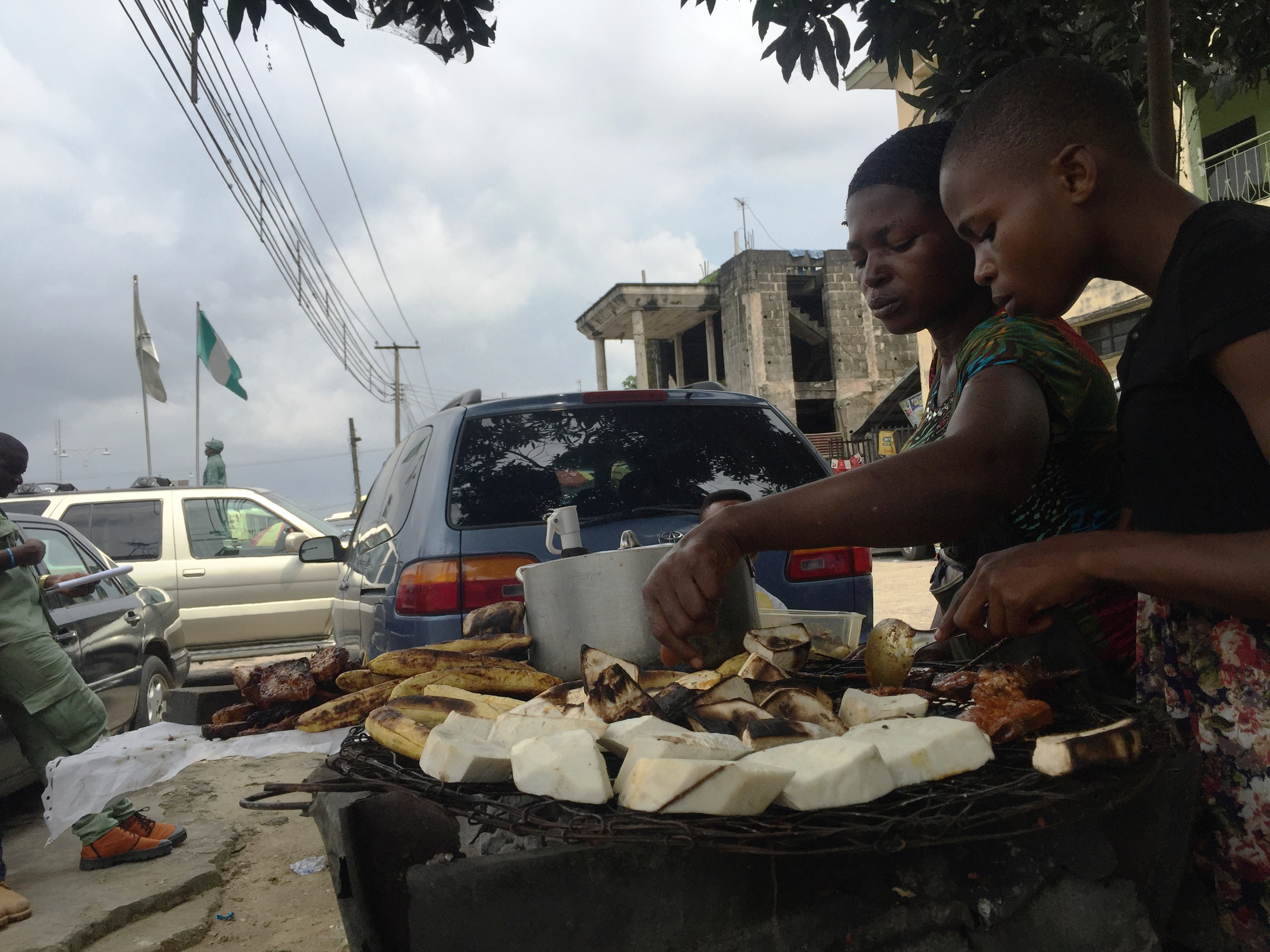 Anyone who has lived in the east precisely Rivers state, can/would testify to the popularity of the awesome Boli fish and Yam made with the hands and heart of hardworking Nigerian women! This is an image of "African people at work" from Nigeria